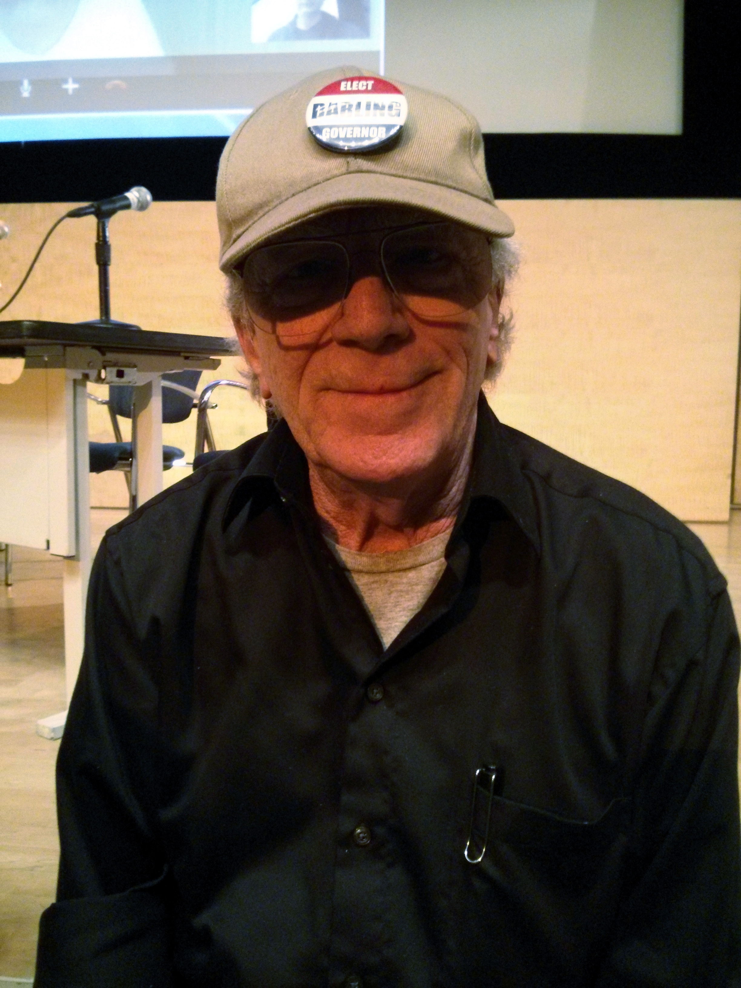 American conceptual artist Lowell Darling at the Ex Postal Fact mail art conference in San Francisco, February 2014. The button on his hat is a political ad supporting his runs for California governor.